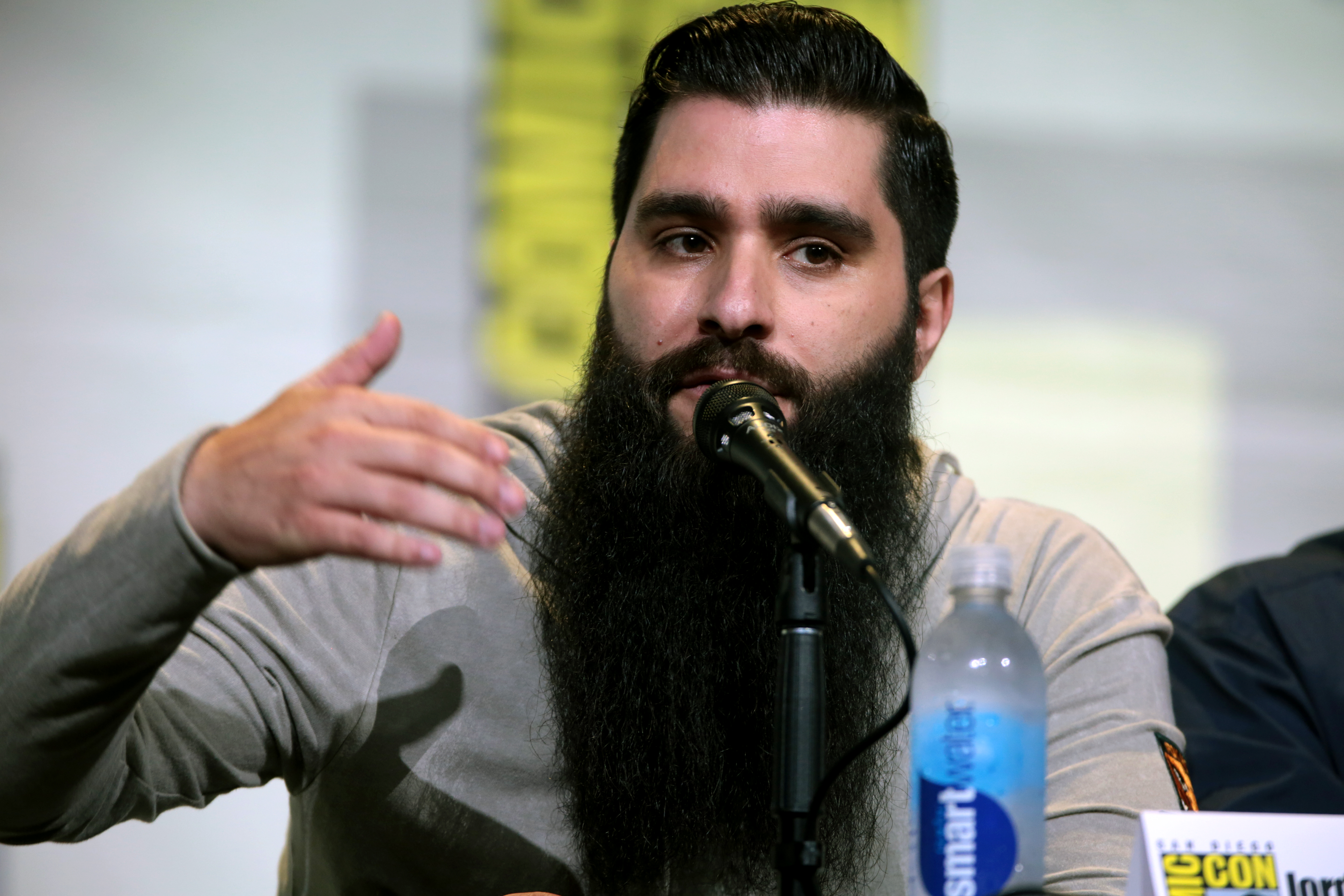 Jordan Vogt-Roberts speaking at the 2016 San Diego Comic Con International, for "Kong: Skull Island", at the San Diego Convention Center in San Diego, California.